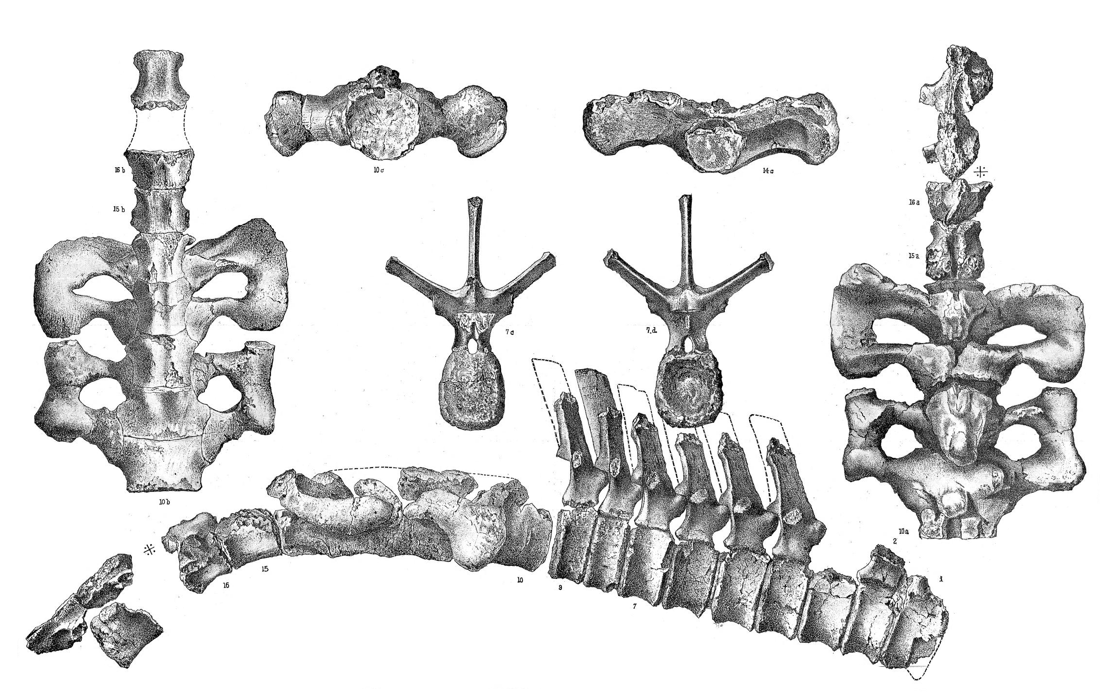 Vertebra and sacrum of Agathaumas sylvestris.